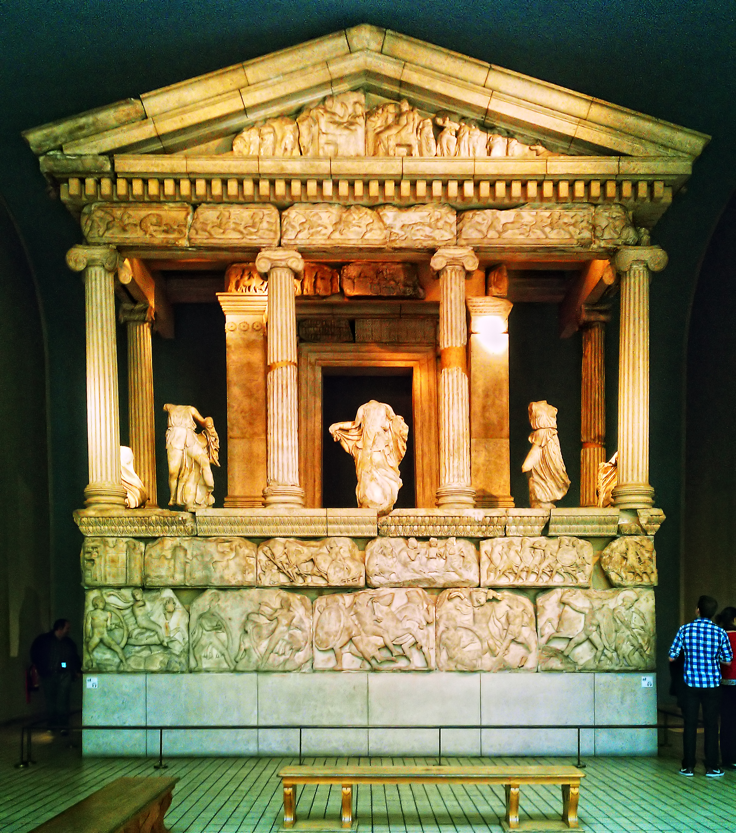 Classical Greek. Marble Excavated by Sir Charles Fellows Excavated/Findspot Nereid Monument The Nereid Monument, Lykian, carved about 390-380 BC From Xanthos, (modern Günük, south-western Turkey).